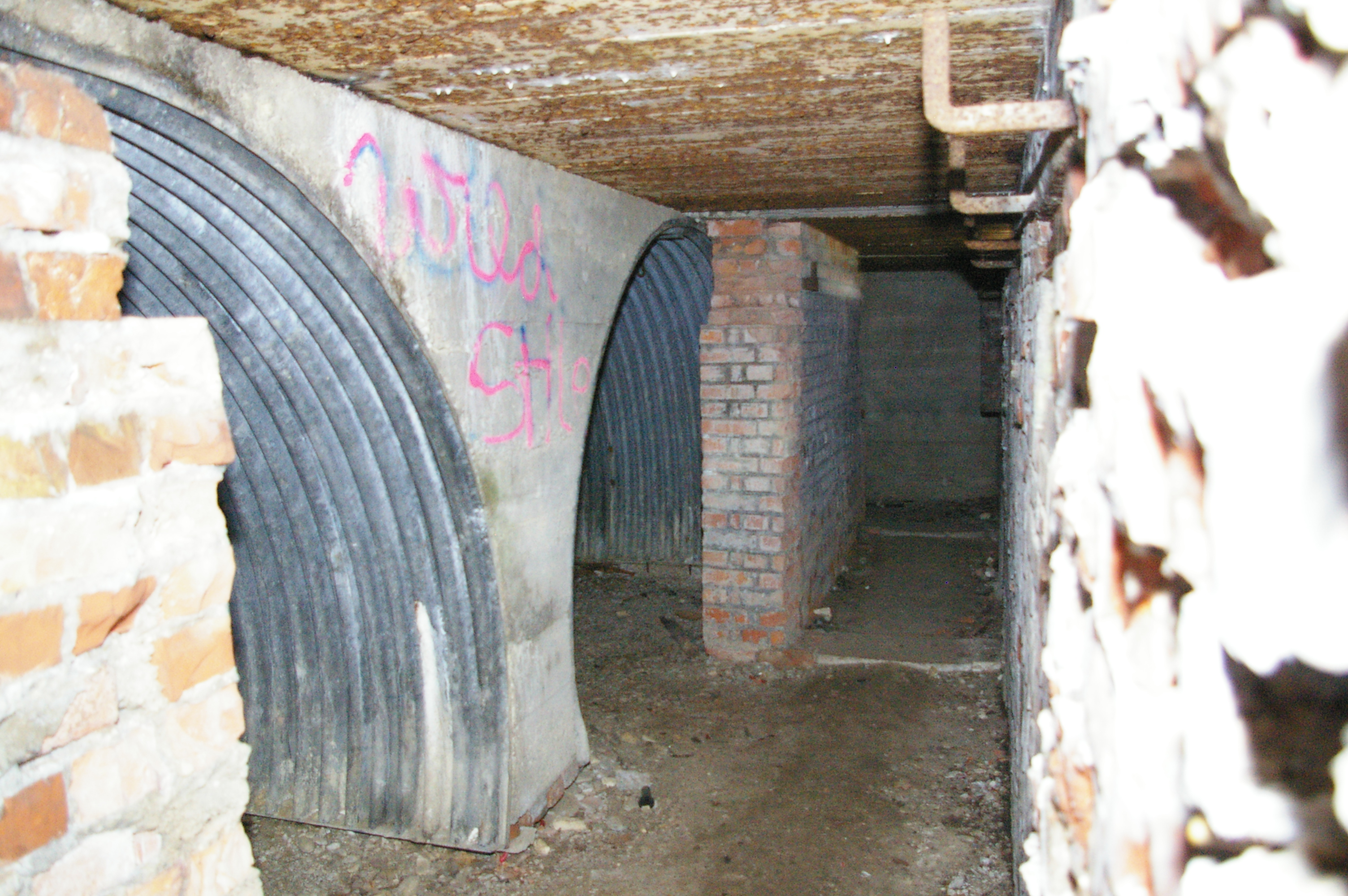 Pillbox of base 58 near Neu-Ulm